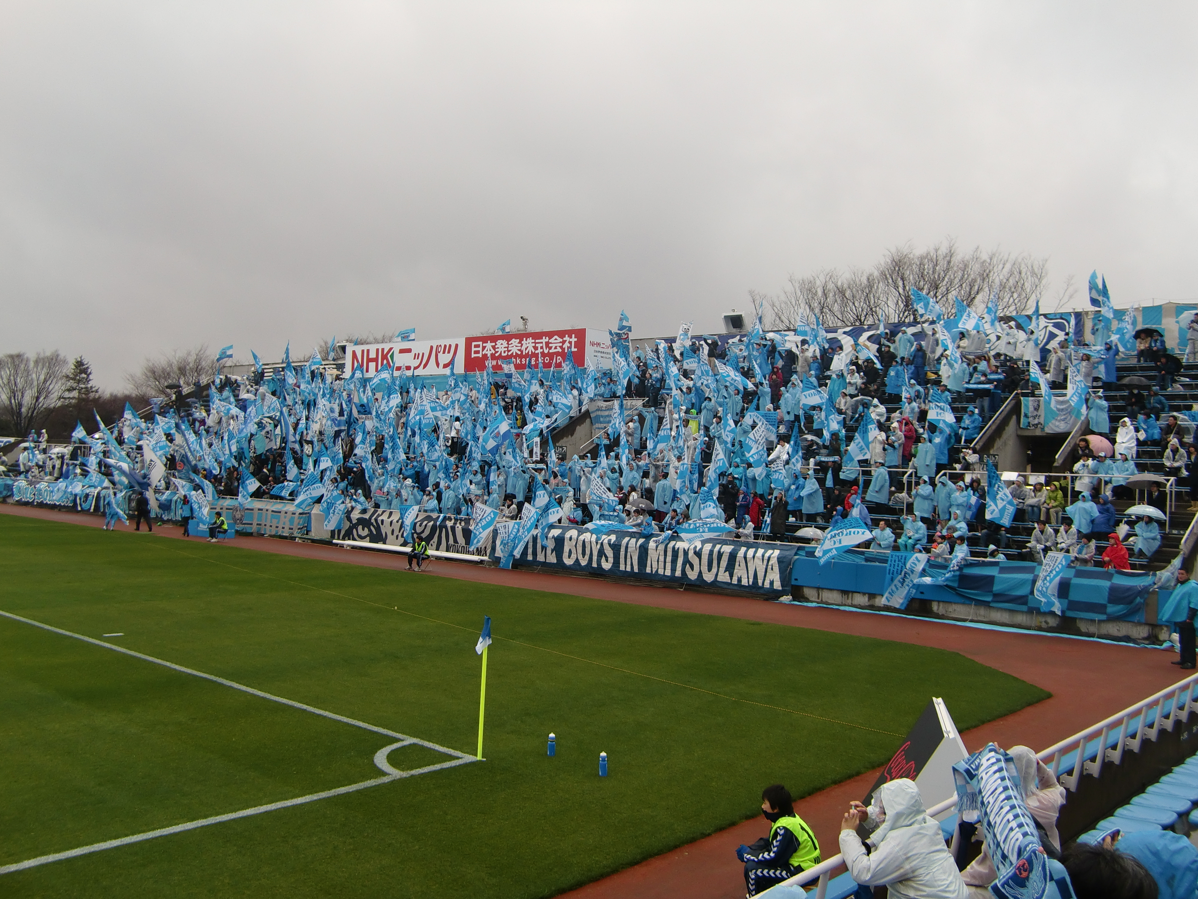 YokohamaFC Fans